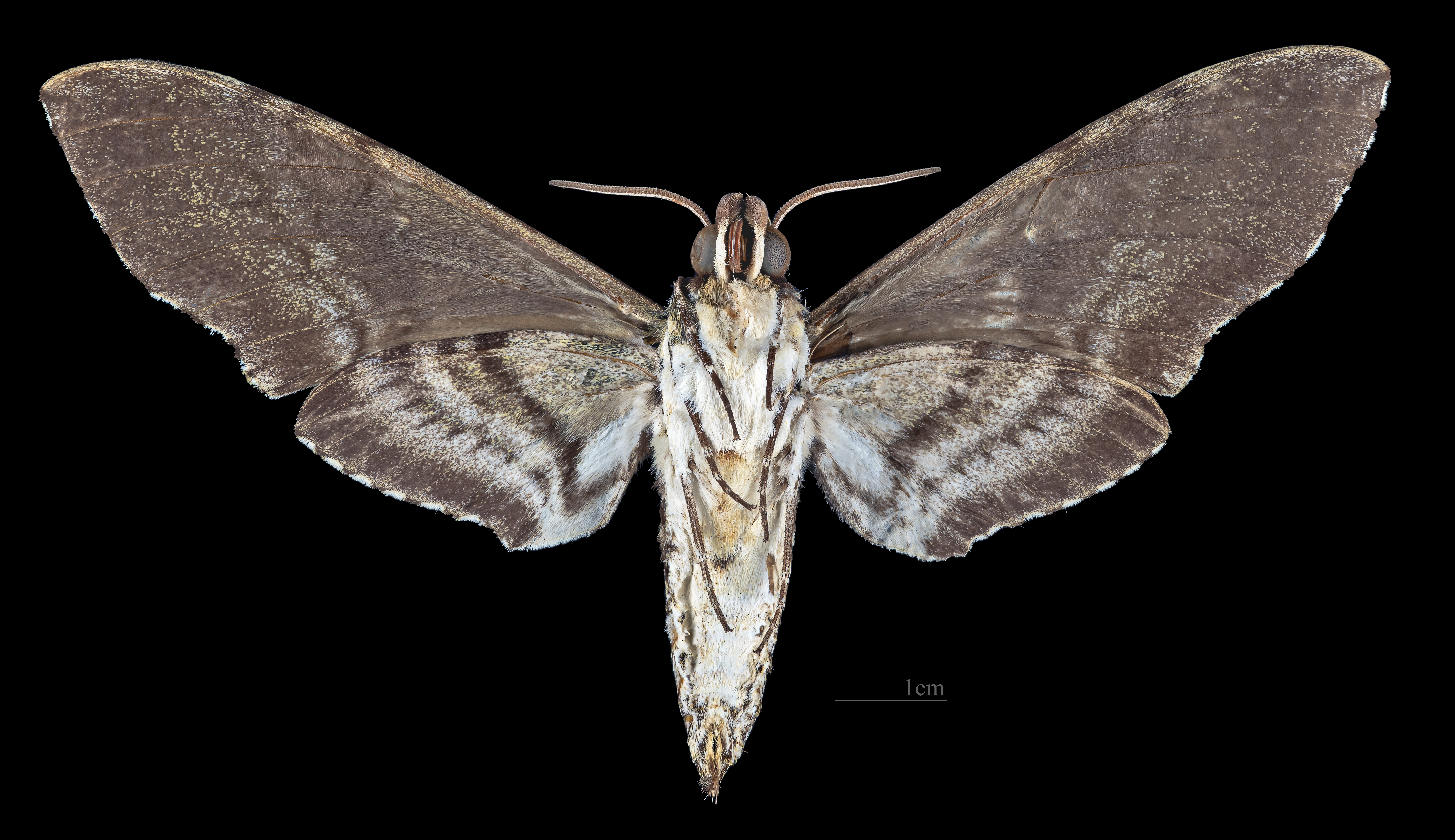 Manduca extrema - △ Ventral side Collection of the Mathematician Laurent Schwartz